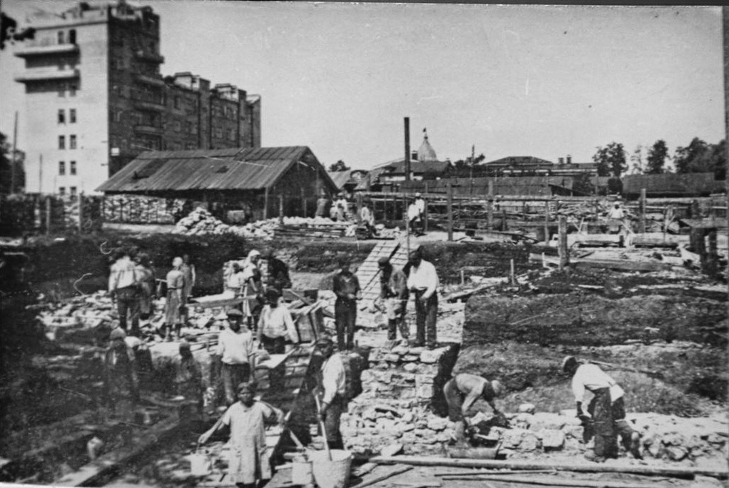 Checkists House in Perm (incomplete)